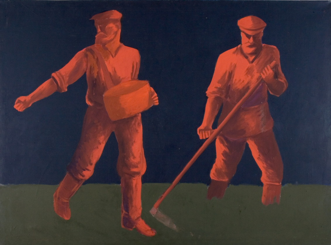 "Siewca i żniwiarz | The Sower and Reaper" - by Jarosław Modzelewski, from the permanent collection of Zachęta National Gallery of Art (Warsaw, Poland)